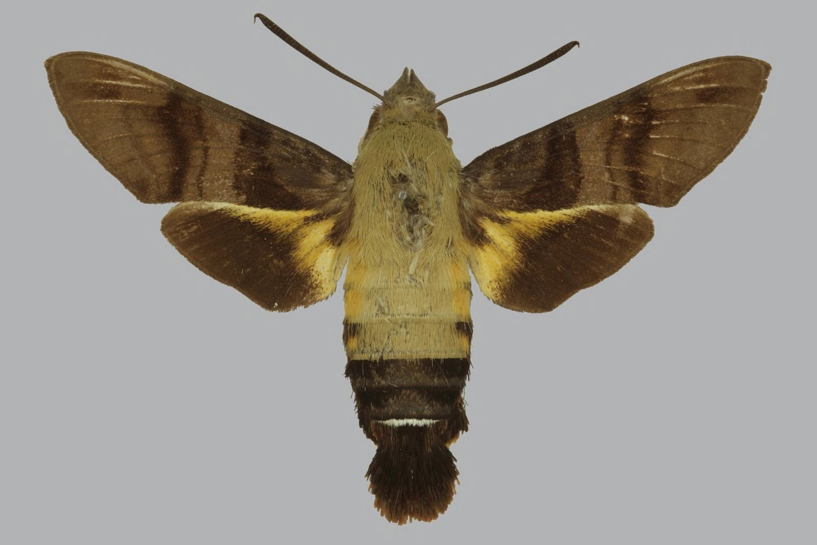 Macroglossum bombylans, female, upperside. Japan